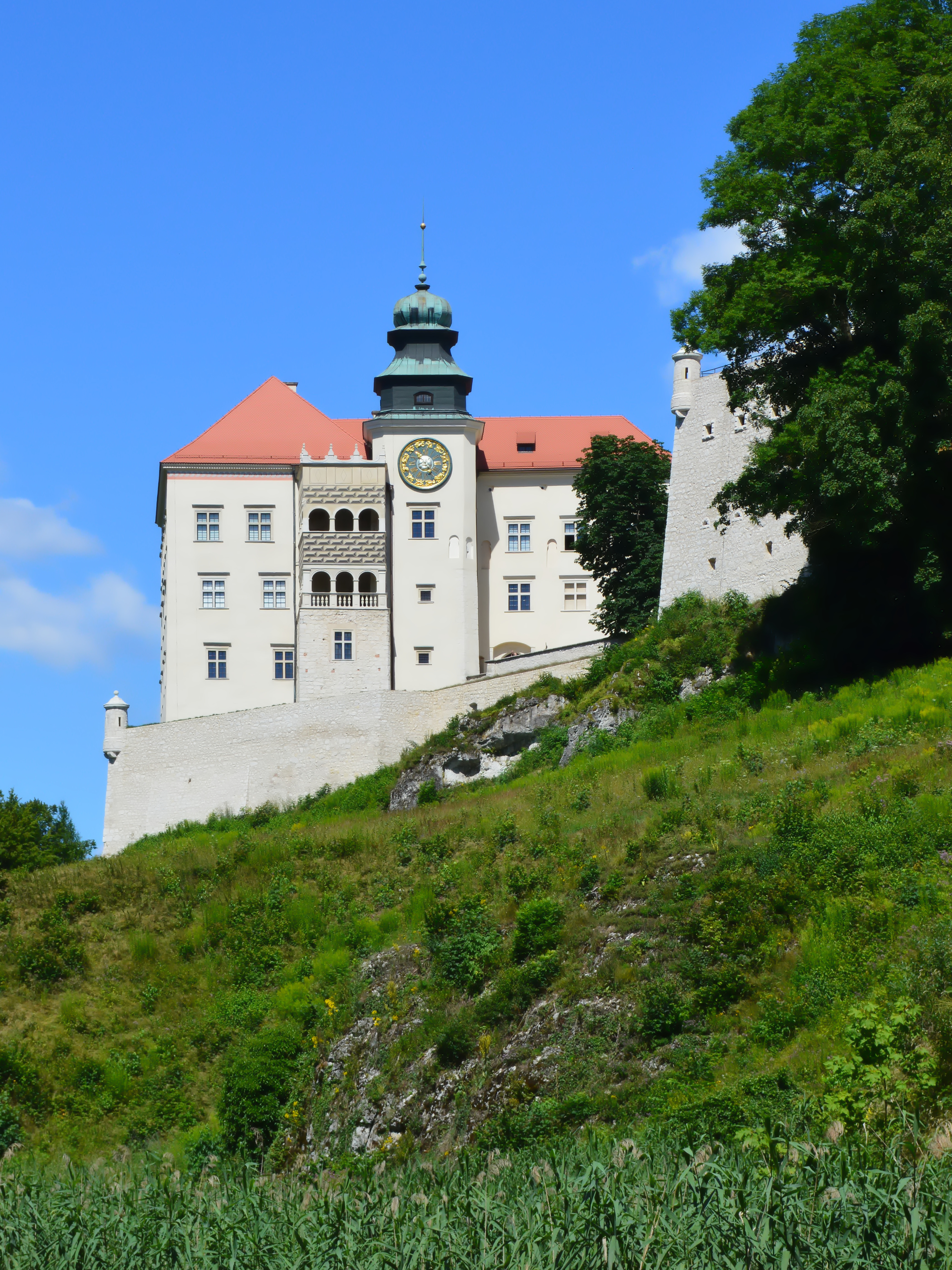 The “Trail of the Eagles' Nests” (Szlak Orlich Gniazd) of south-western Poland, is a marked trail, named after a chain of 25 medieval castles which the trail passes by, between Częstochowa and Kraków. The Trail of the Eagles' Nests was first marked by Kazimierz Sosnowski. Since 1980, much of the area has been designated a protected area known as the Eagle Nests Landscape Park (Park Krajobrazowy Orlich Gniazd). The castles, including Pieskowa Skała, Ogrodzieniec, Mirów, Bobolice Castle date mostly from the fourteenth century, and were constructed by the order of the Polish King Kazimierz the Great. They have been named the "Eagles' Nests", as most of them are located on large, tall rocks of the Polish Jura Chain featuring many limestone cliffs, monadnocks and valleys below. They were built along the fourteenth century border of Lesser Poland with the province of Silesia, which at that time belonged to the Kingdom of Bohemia. The Eagles' Nests castles (Orle Gniazda), many of which survived only in the form of picturesque ruins, are perched high on the tallest rocks between Częstochowa and the former Polish capital Kraków. The castles were built to protect Kraków as well as important trading routes against the foreign invaders. Later, the castles passed on into the hands of various Polish aristocratic families.The Scotch Mist Gallery contains many photographs of historic buildings, monuments and memorials of Poland.